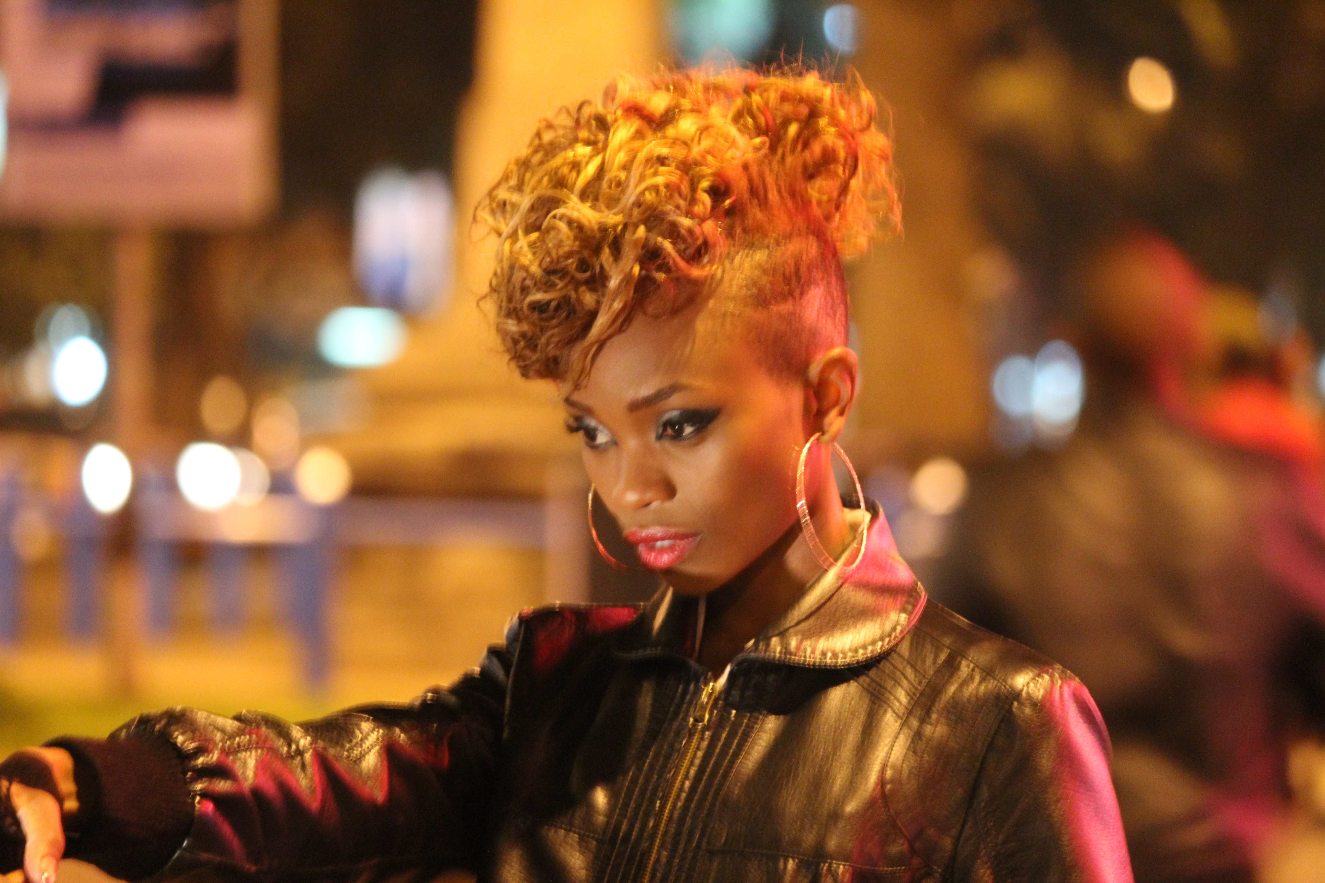 Stella Mwangi During a recent video shoot in Nairobi